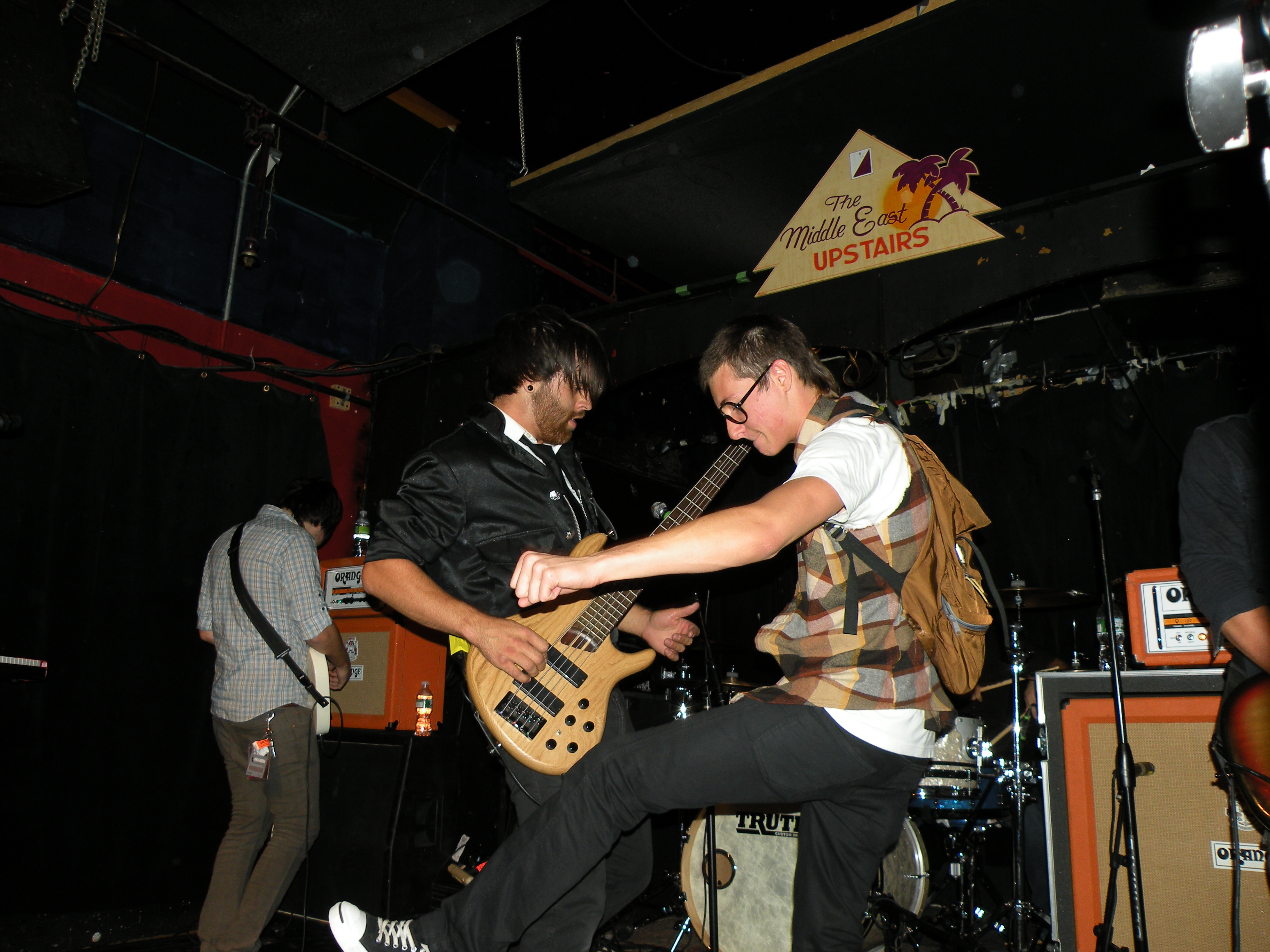 Eye Alaska at the VersaEmerge show at The Middle East in Cambridge, MA on 10/12/2008.